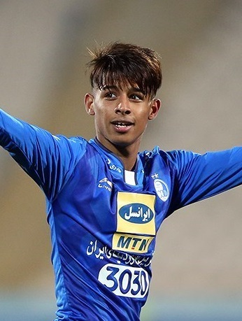 Mehdi Ghaedi